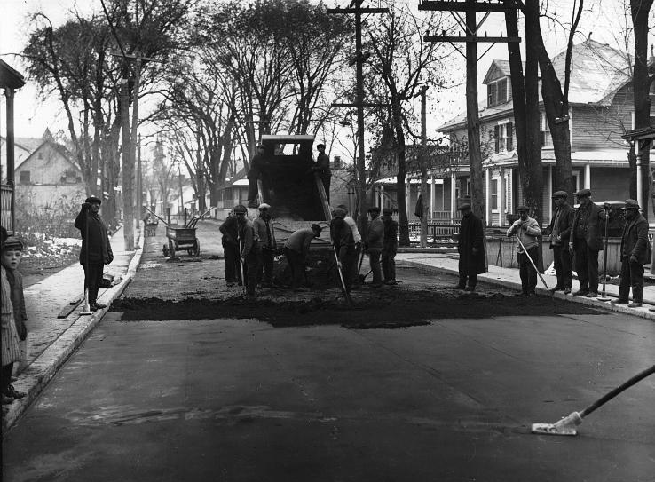 Photograph Workers spreading asphalt, Sault-aux-Récollets, QC, about 1930, Anonymous, Silver salts on glass - Gelatin dry plate process, 20 x 25 cm